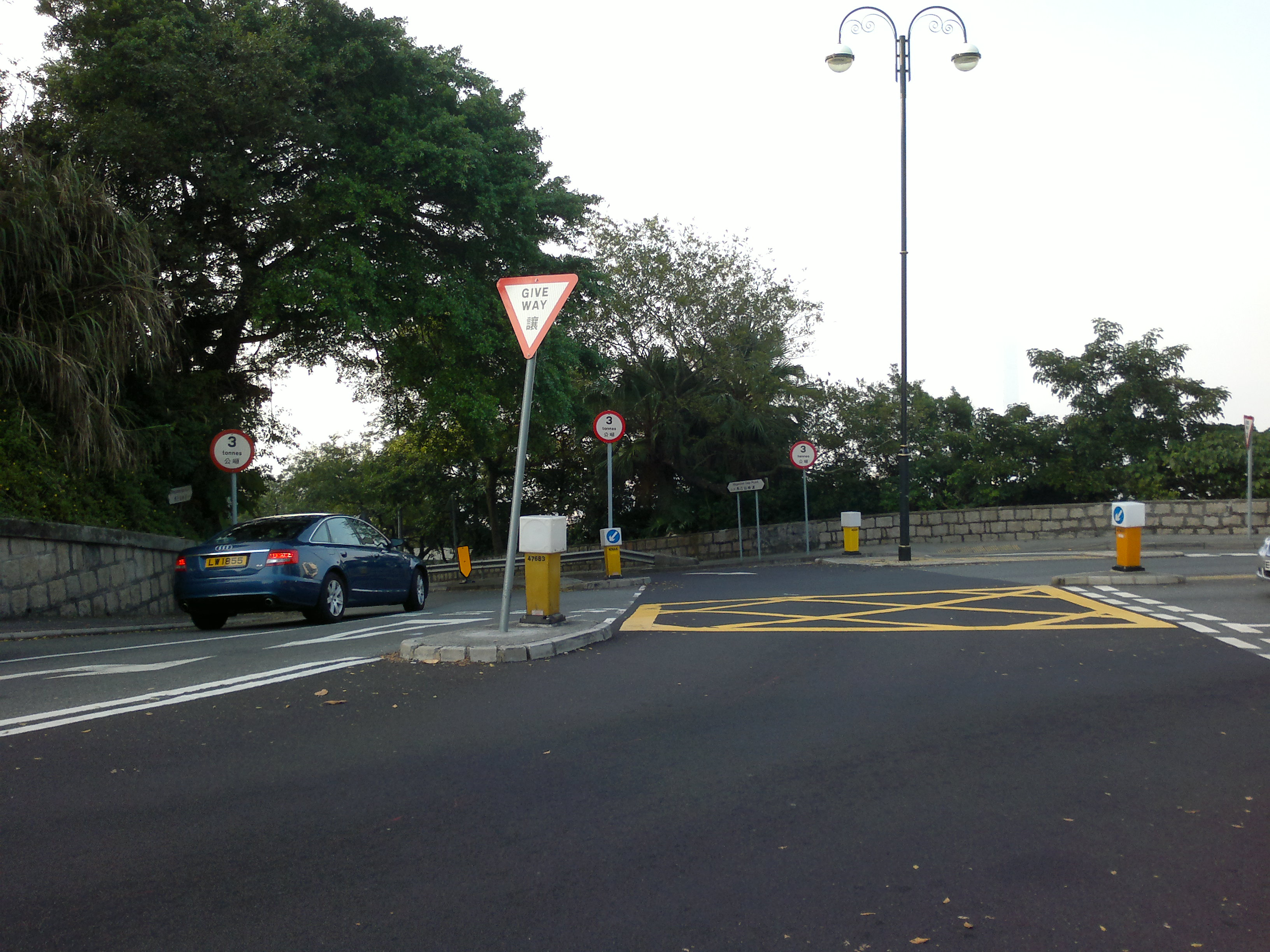 Peak Road near Magazine Gap Road